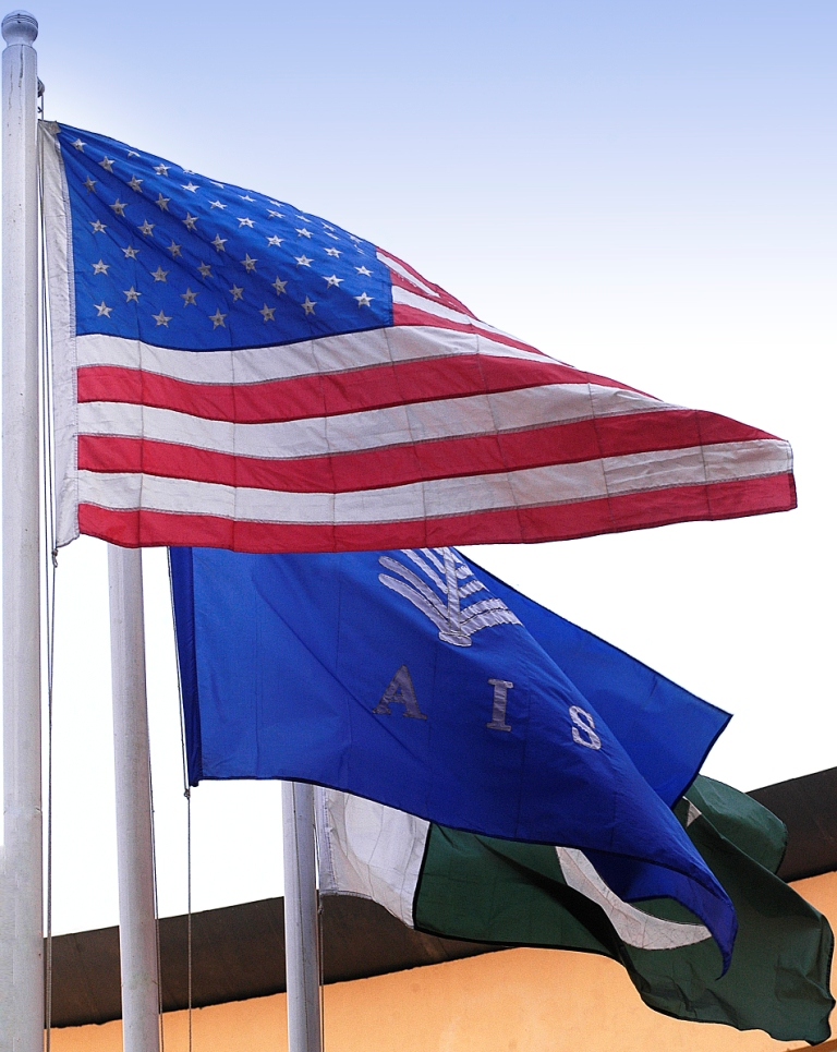 Flags at the AISS campus